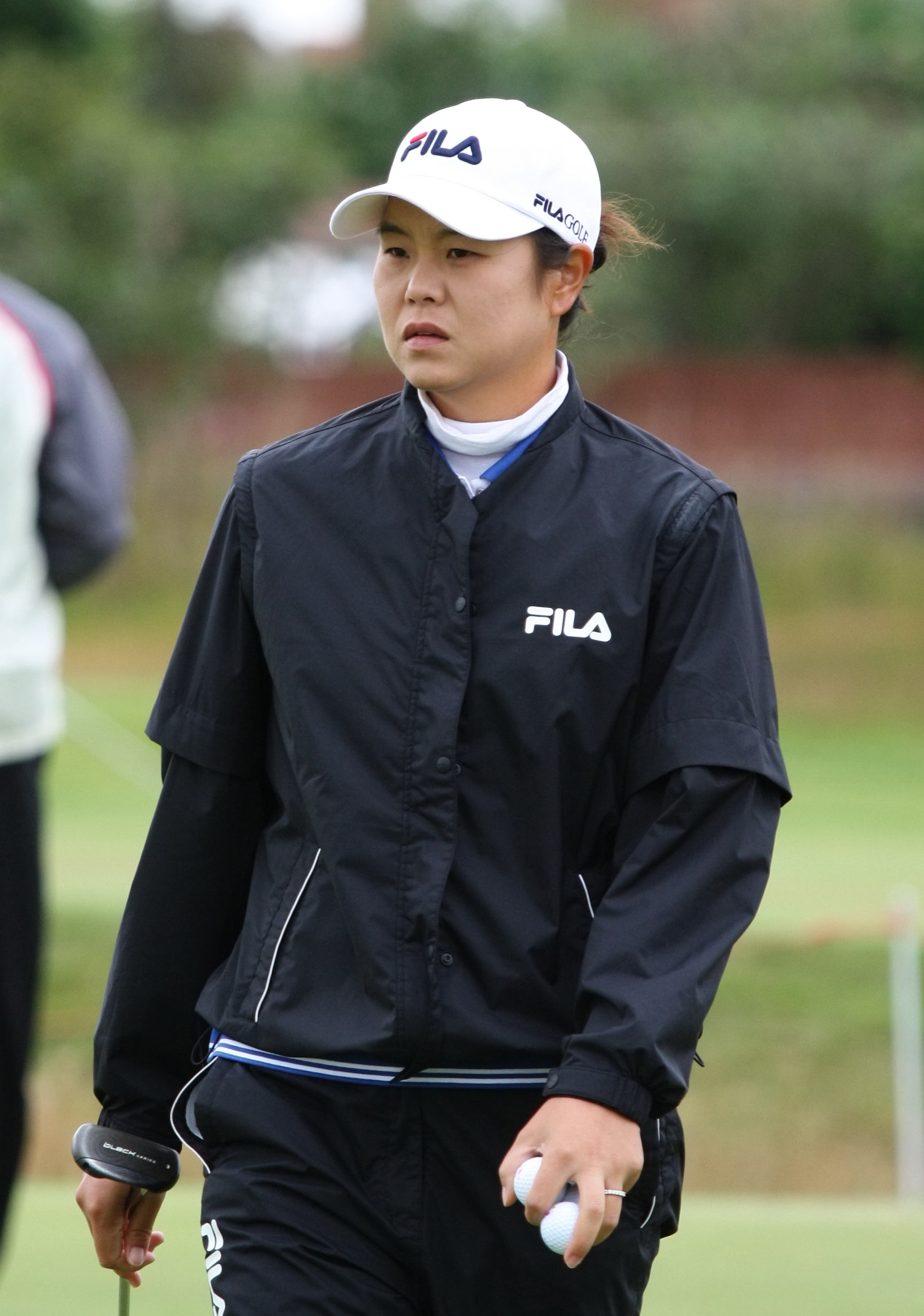 LYTHAM ST ANNES, UNITED KINGDOM - JULY 29: Hee-Won Han of South Korea on the 11th green during third practice round before 2009 Ricoh Women's British Open held at Royal Lytham & St Annes on July 29, 2009 in Lytham St Annes, England. (Photo by Wojciech Migda)